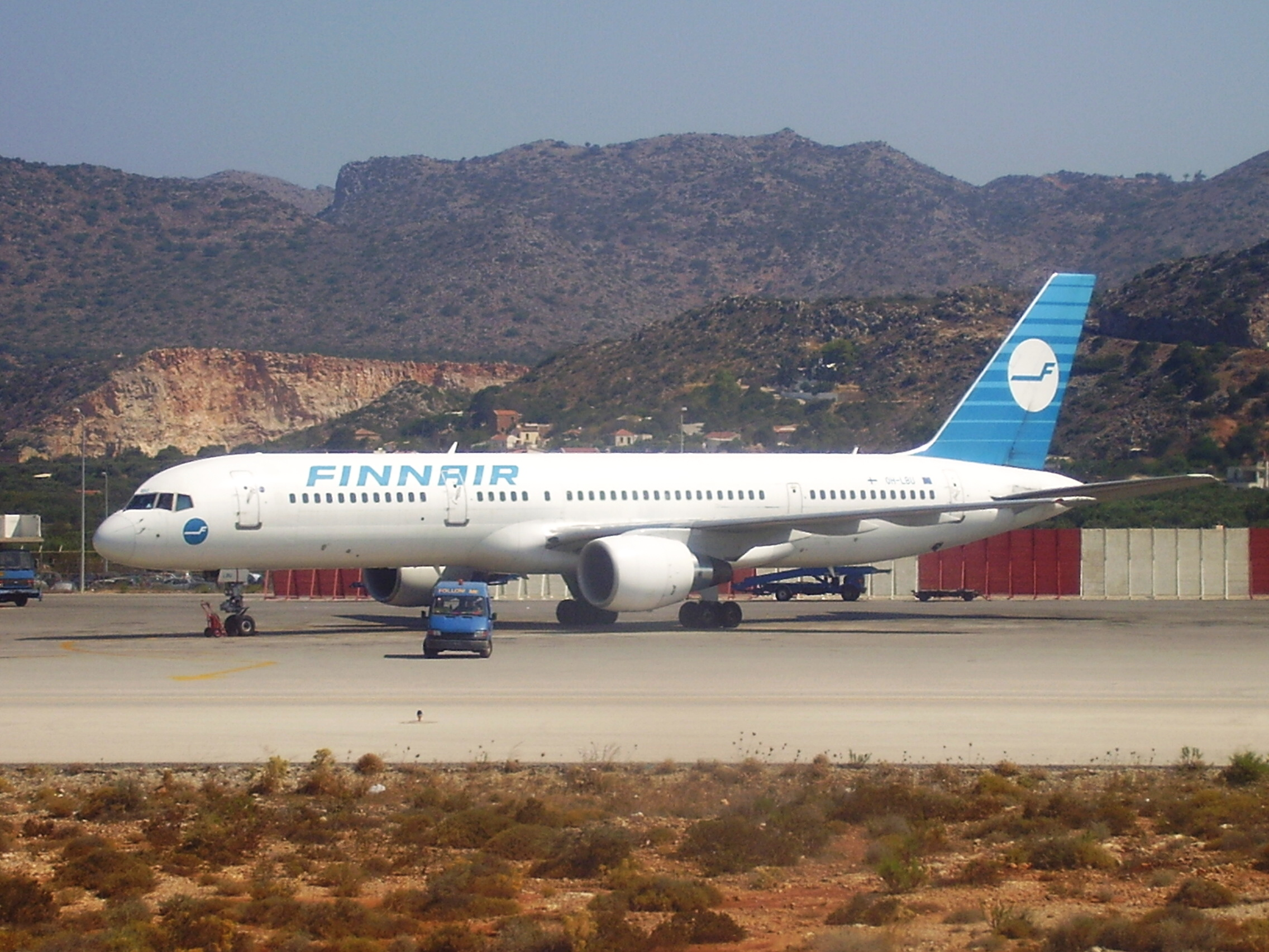 Finnair Boeing 757-200 at Chania International Airport